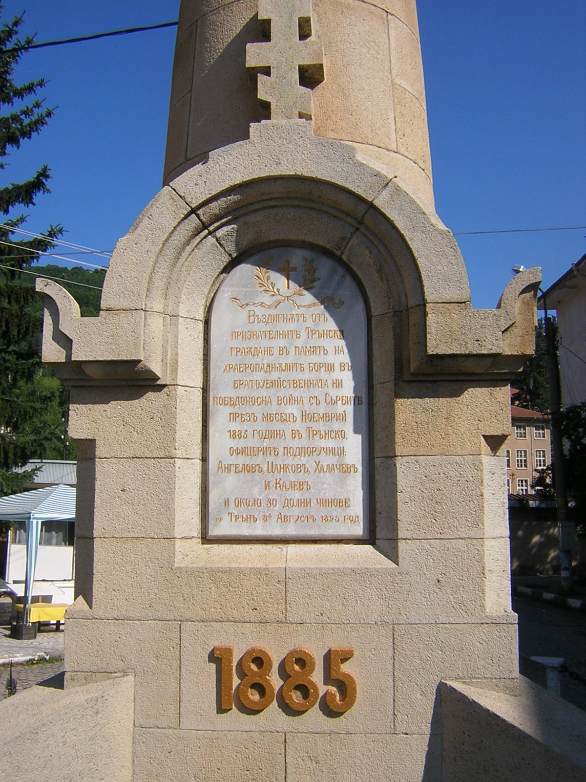 Monument to the Serbo-Bulgarian war of 1885 in Tran, Bulgaria.